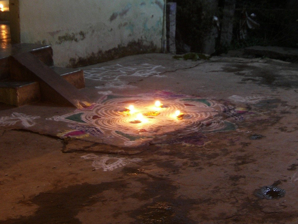 A kolam (rangoli) with lamps in Tamil Nadu, India during the Dipavali festival.